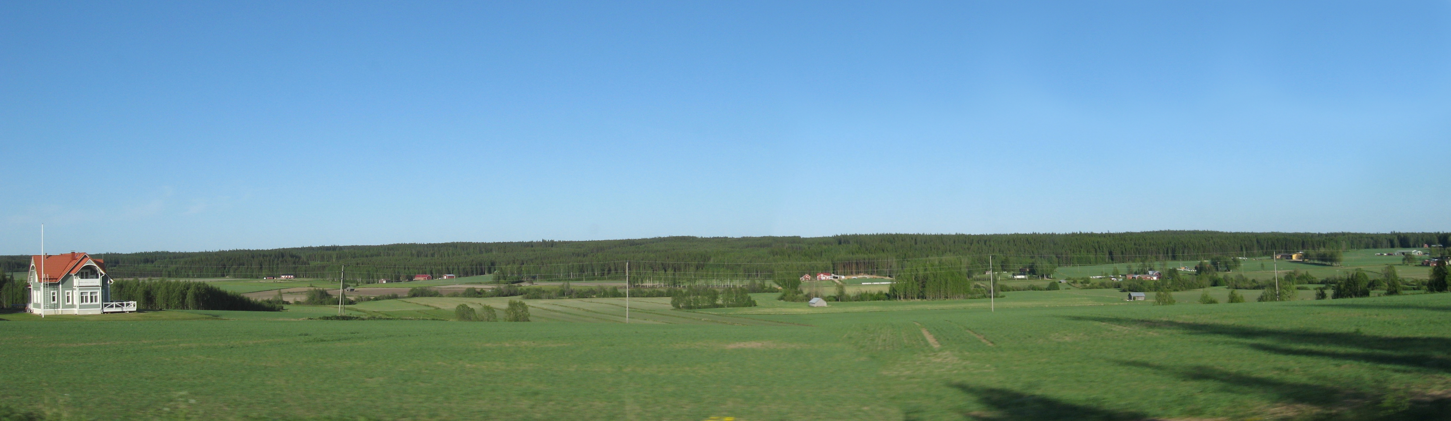 Hyypänjokilaakso valley in Hyyppä village, Kauhajoki, Finland.